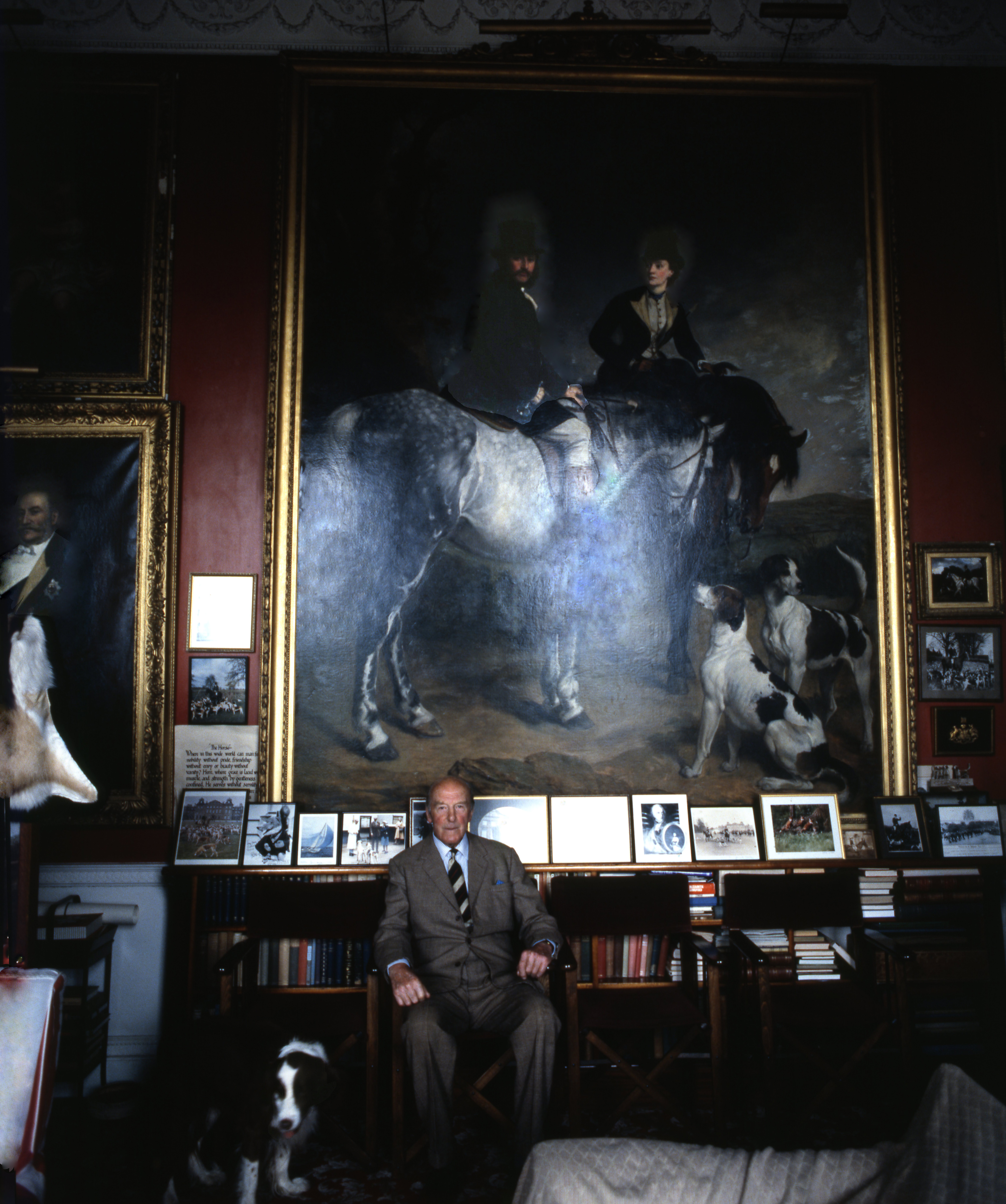 Henry Somerset 10th Duke of Beaufort in his study at his family seat Badminton